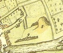 detail of Bedford Castle in early 17th century